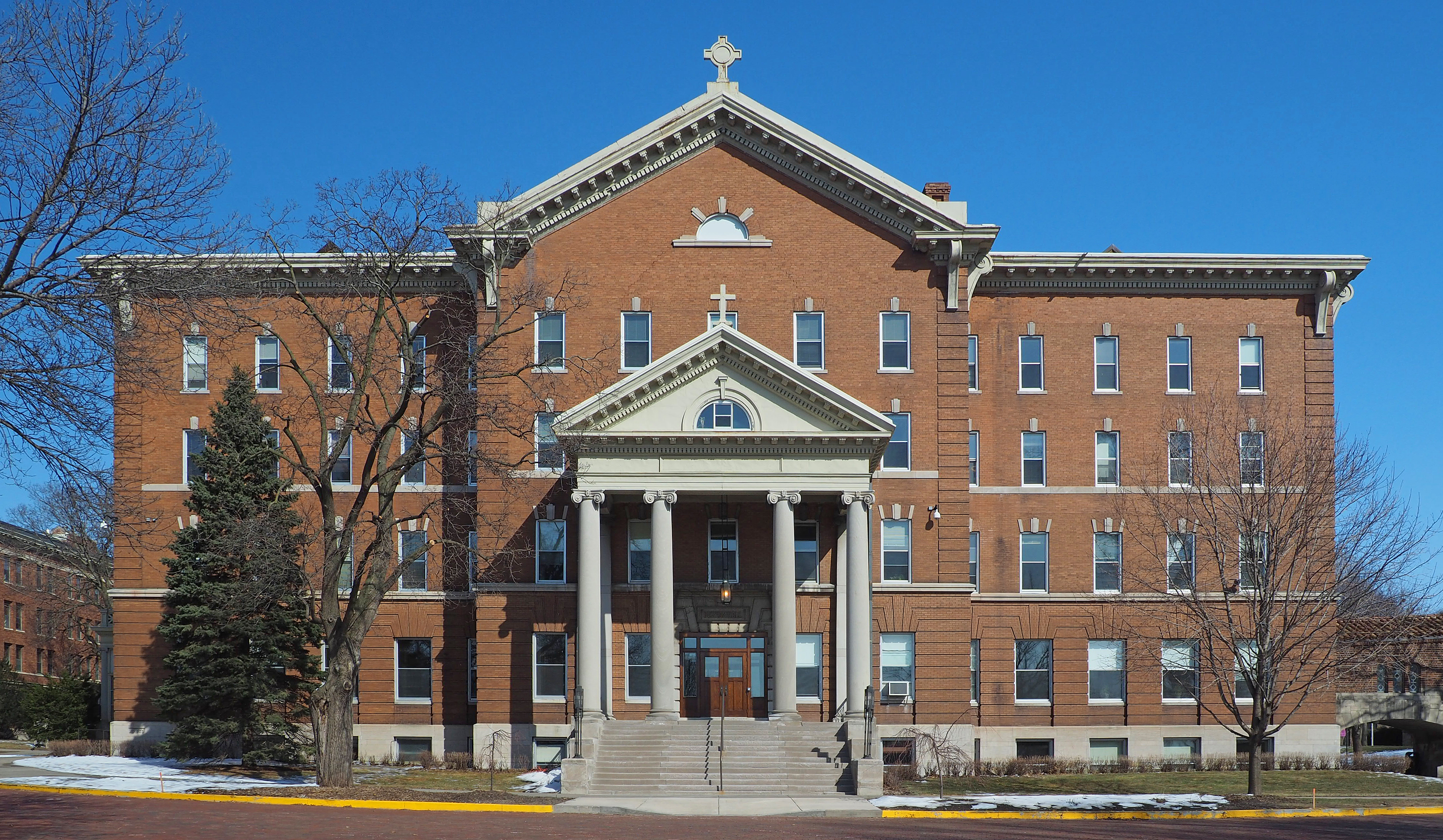 Derham Hall, St Catherine University, 2004 Randolph Ave, St Paul, Minnesota, USA. Viewed from the west.